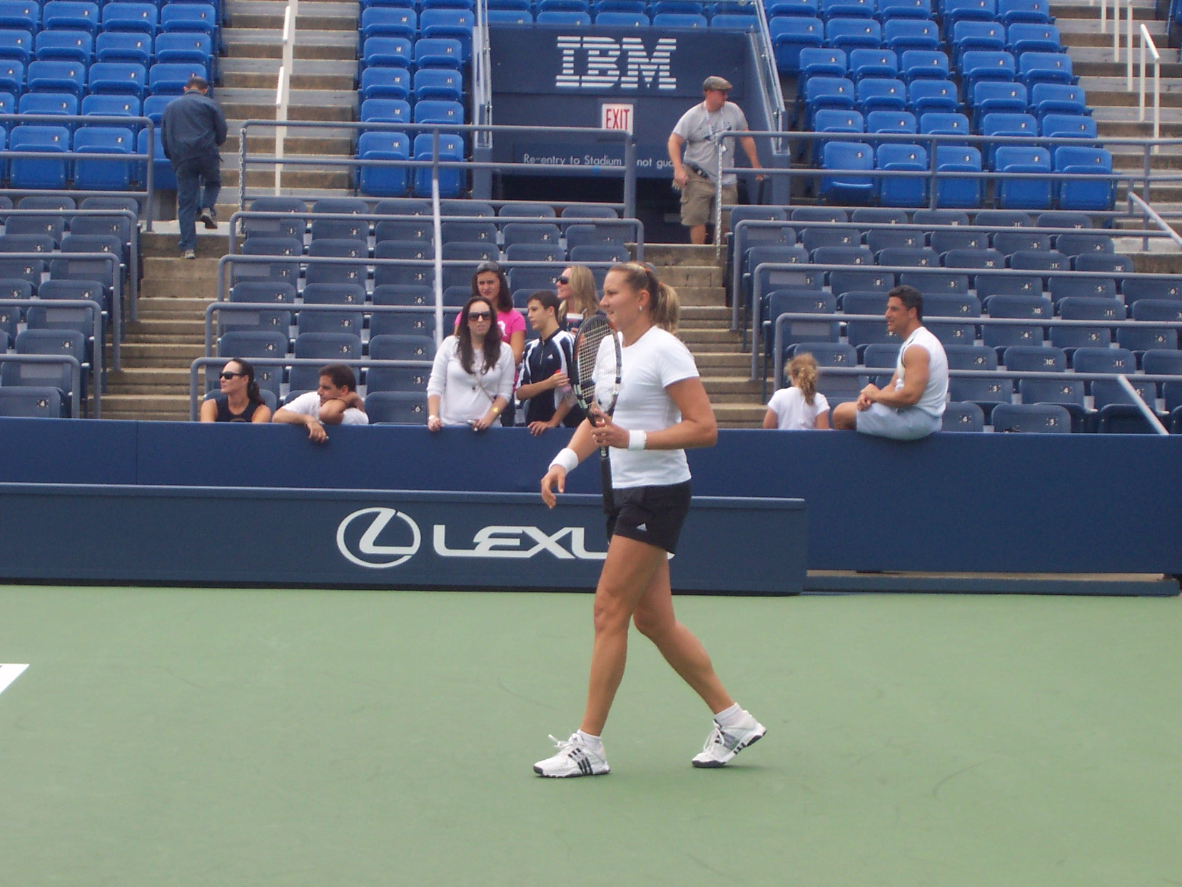 Nadia Petrova at the 2007 US Open